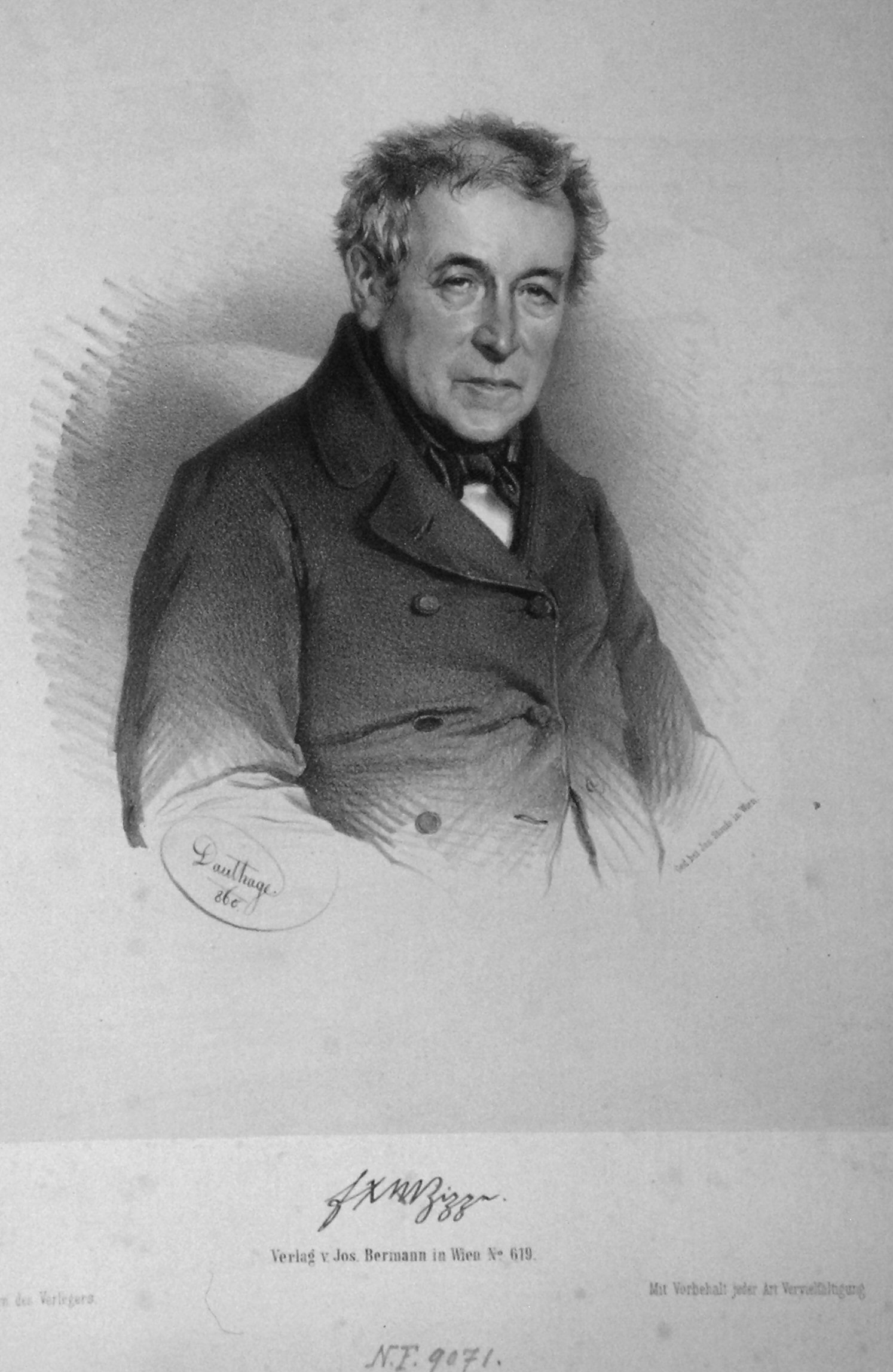 Franz Xaver Maximilian Zippe (1791-1860) Mineralogist, Lithography by Adolf Dauthage, 1860.